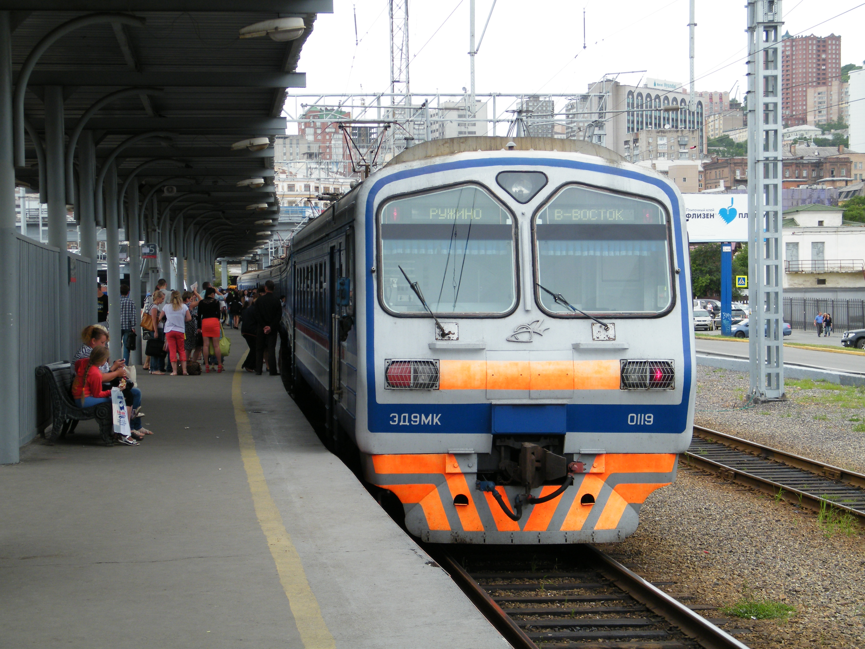 Электропоезд Уссурочка